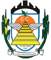 Brasão de Engenheiro Coelho